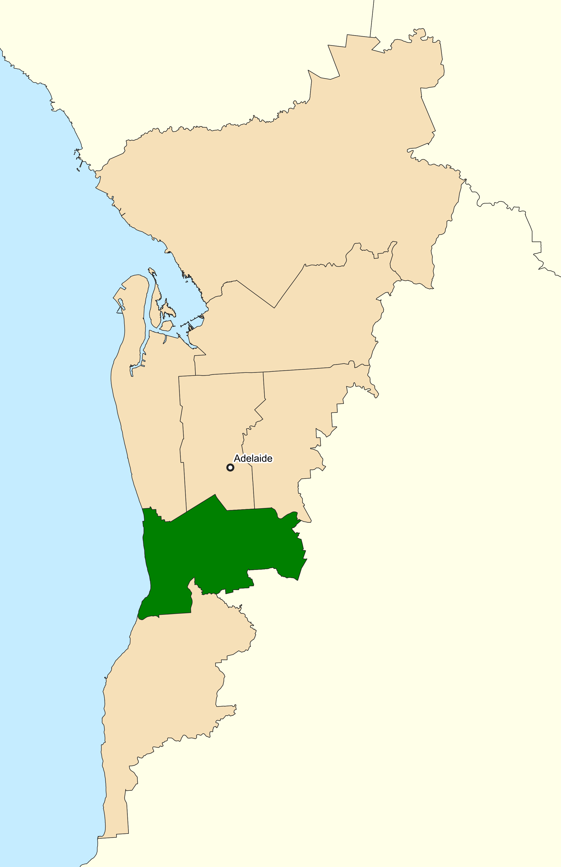 Location of the Australian federal electoral division of Boothby (dark green) in Greater Adelaide, South Australia as of the 2019 Australian federal election. Incorporates or developed using Administrative Boundaries ©PSMA Australia Limited licensed by the Commonwealth of Australia under Creative Commons Attribution 4.0 International licence (CC BY 4.0).